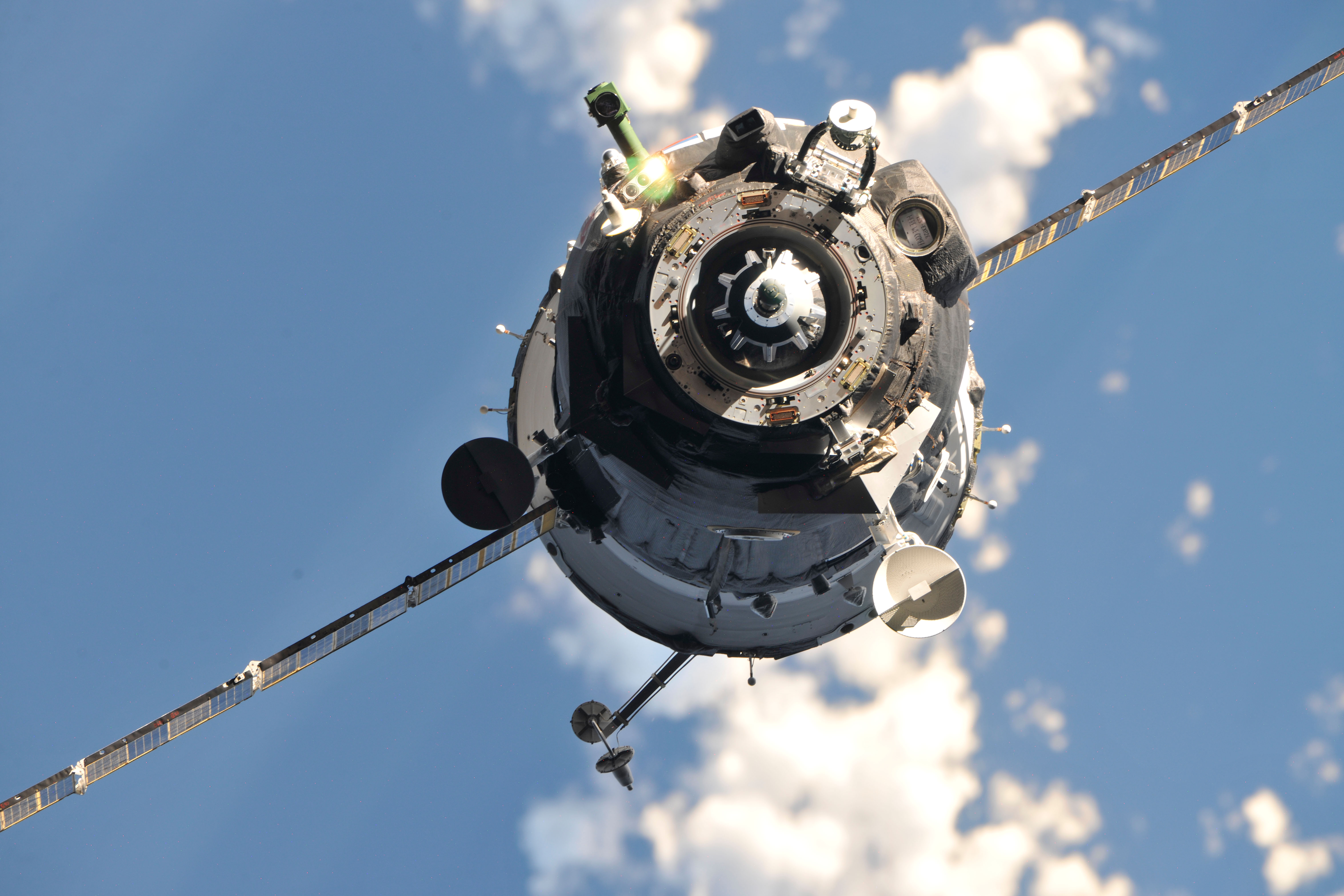 The Soyuz TMA-20 spacecraft approaches the International Space Station, carrying Russian cosmonaut Dmitry Kondratyev, Soyuz commander and Expedition 26 flight engineer; along with NASA astronaut Catherine (Cady) Coleman and European Space Agency astronaut Paolo Nespoli, both flight engineers. Docking of the two spacecraft occurred at 3:11 p.m. (EST) on Dec. 17, 2010.